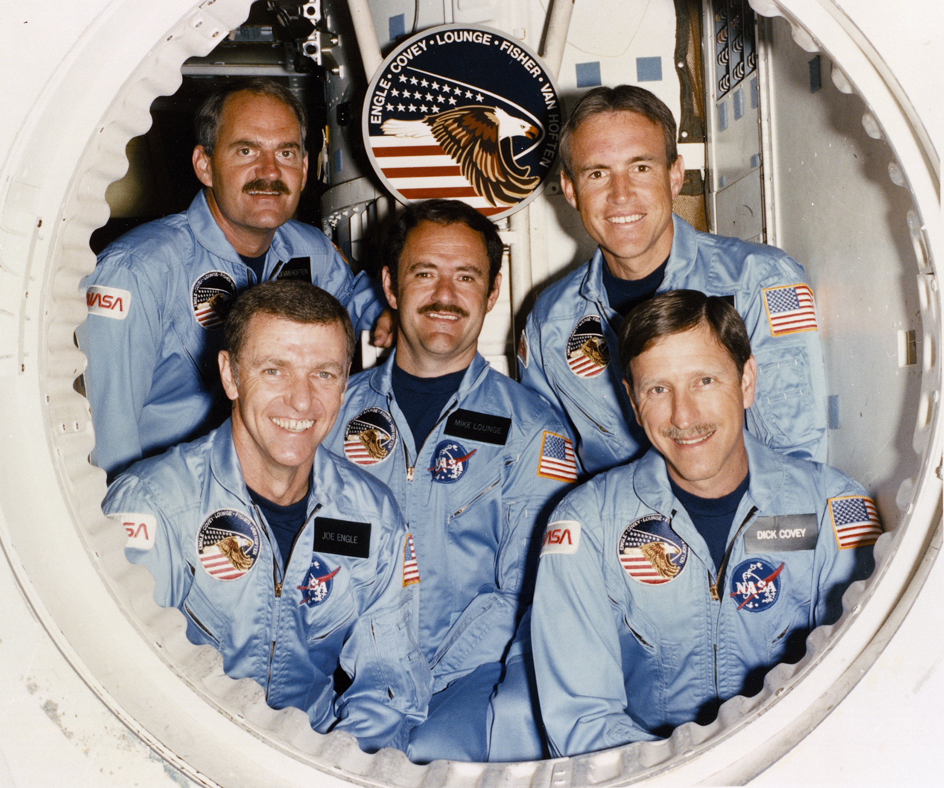 The crew assigned to the STS-51I mission included (front row left to right) Joe H. Engle, commander; and Richard O. Covey, pilot. In the center is John M. (Mike) Lounge, mission specialist. On the back row, from left to right, are mission specialists James D. van Hoften, and William F. Fisher. Launched aboard the Space Shuttle Discovery on August 27, 1985 at 6:58:01 am (EDT), the STS-51I mission's primary payloads were three communication satellites: the ASC-1 for the American Satellite Company; the AUSSAT-1, an Australian communications satellite; and the SYNCOM-IV-4, the synchronous communications satellite.